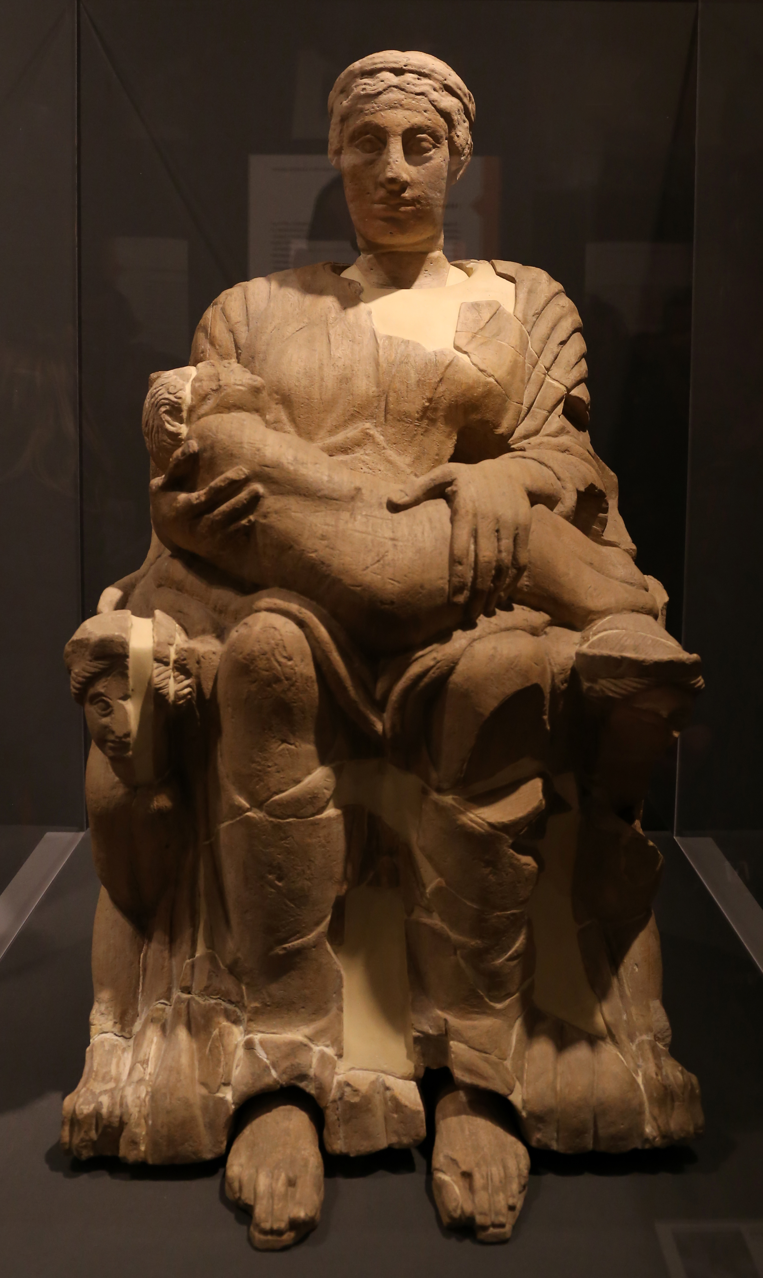 La Bellezza Salvata (2016-2017 exhibition)